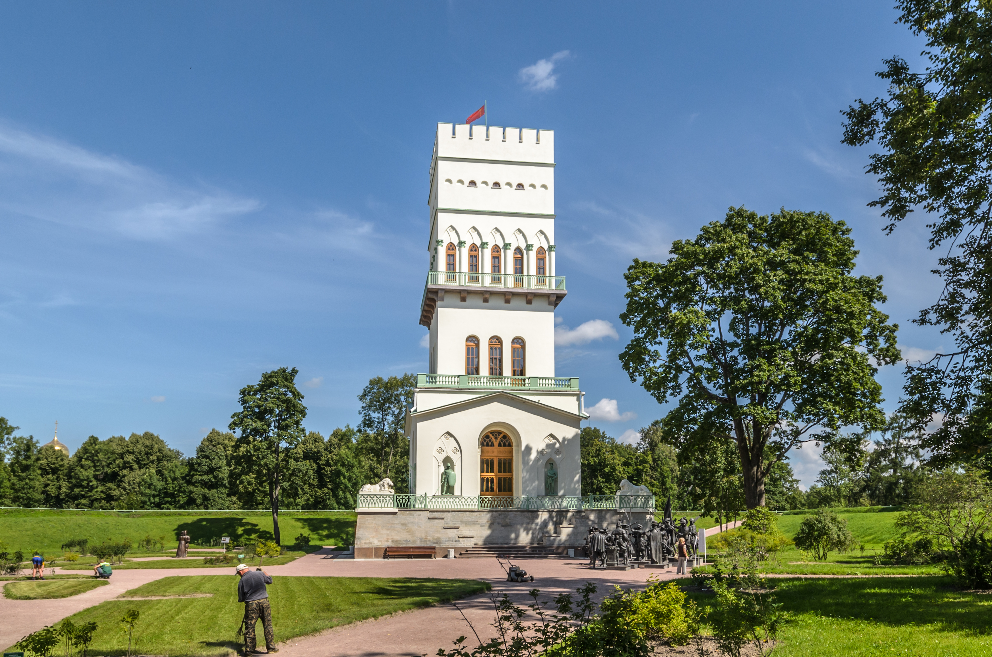 White Tower in Alexandrovsky Park of Tsarskoe Selo